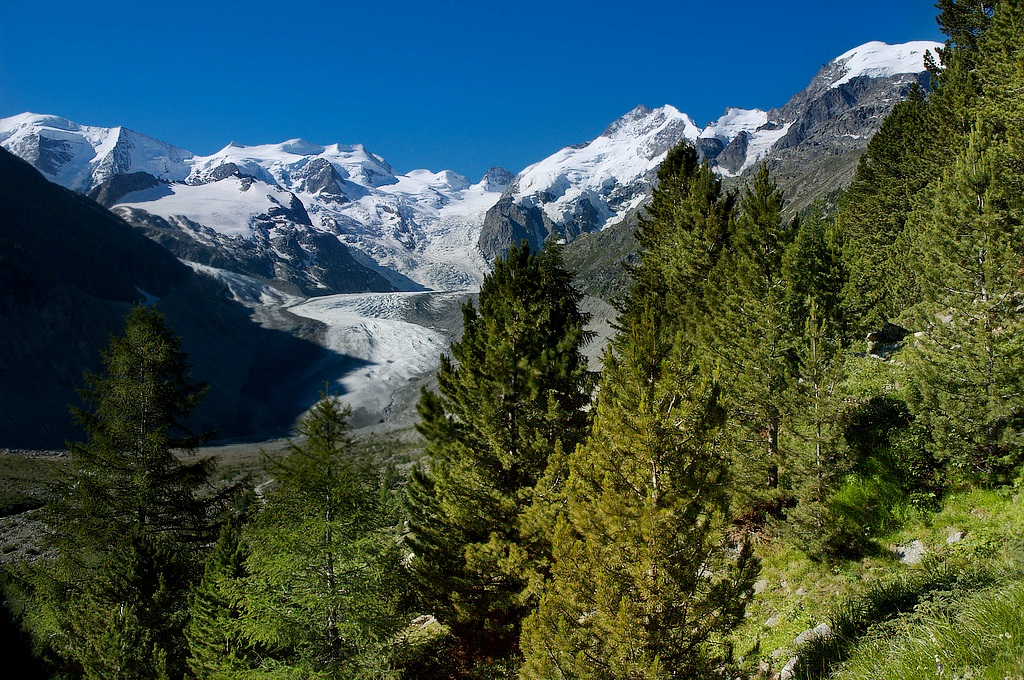 Morterastch Glacier, Graubünden